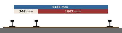 Example of 3-track combined track, combining gauges 1,067 mm and 1,435 mm. The rail weight in this example is 30.0 kgs/m